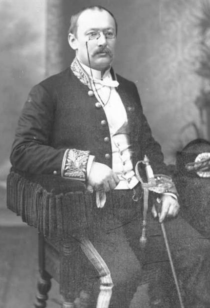 Norwegian Hans Aimar Mow Grønvold (1846–1926) who was secretary to the new king Haakon VII from 1905 until his death in 1926.